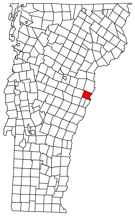 Map of Vermont towns with Bradford highlighted